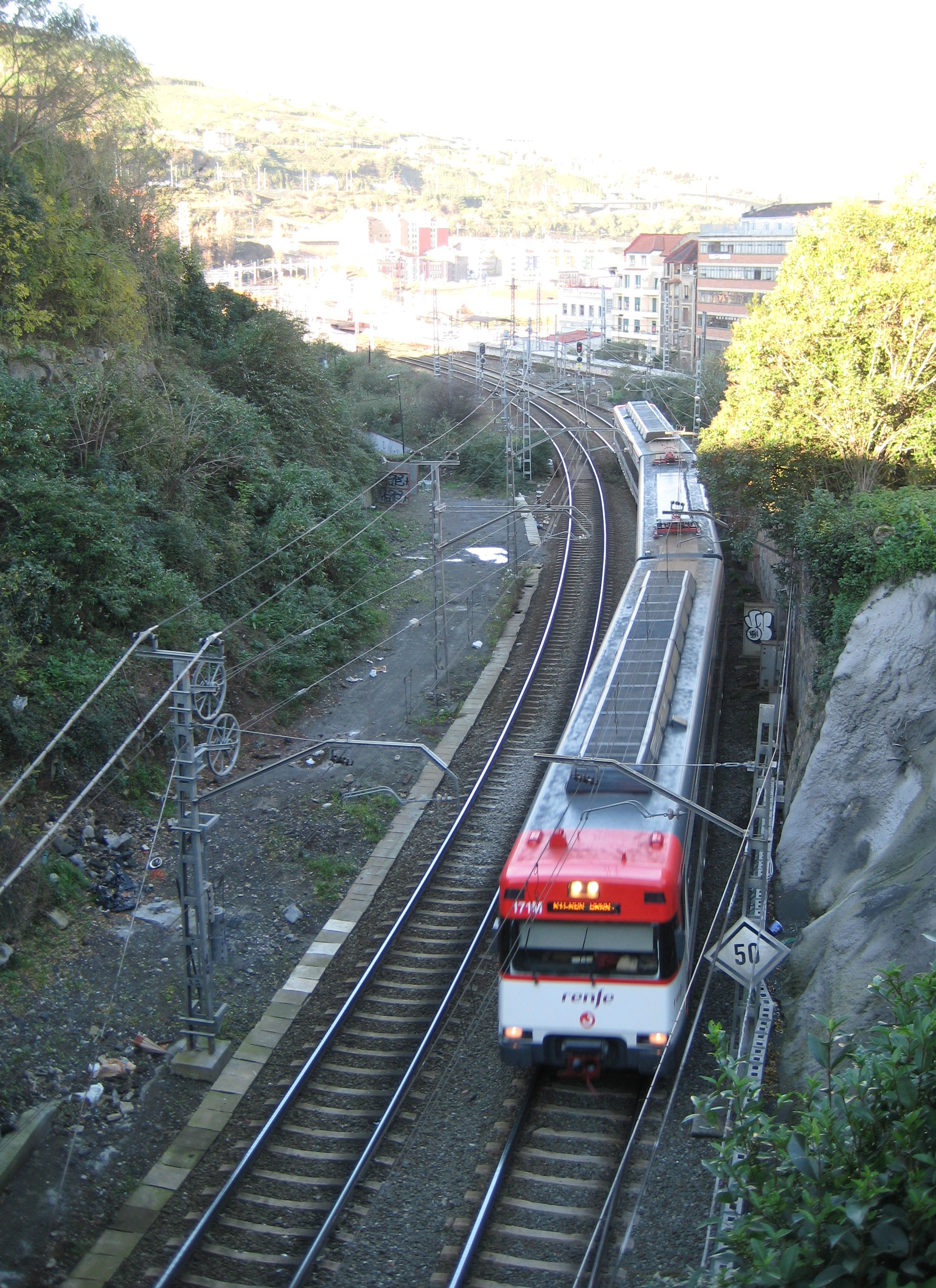 Renfe train out of Olabeaga station towards a tunnel and San Mamés station, in Bilbao